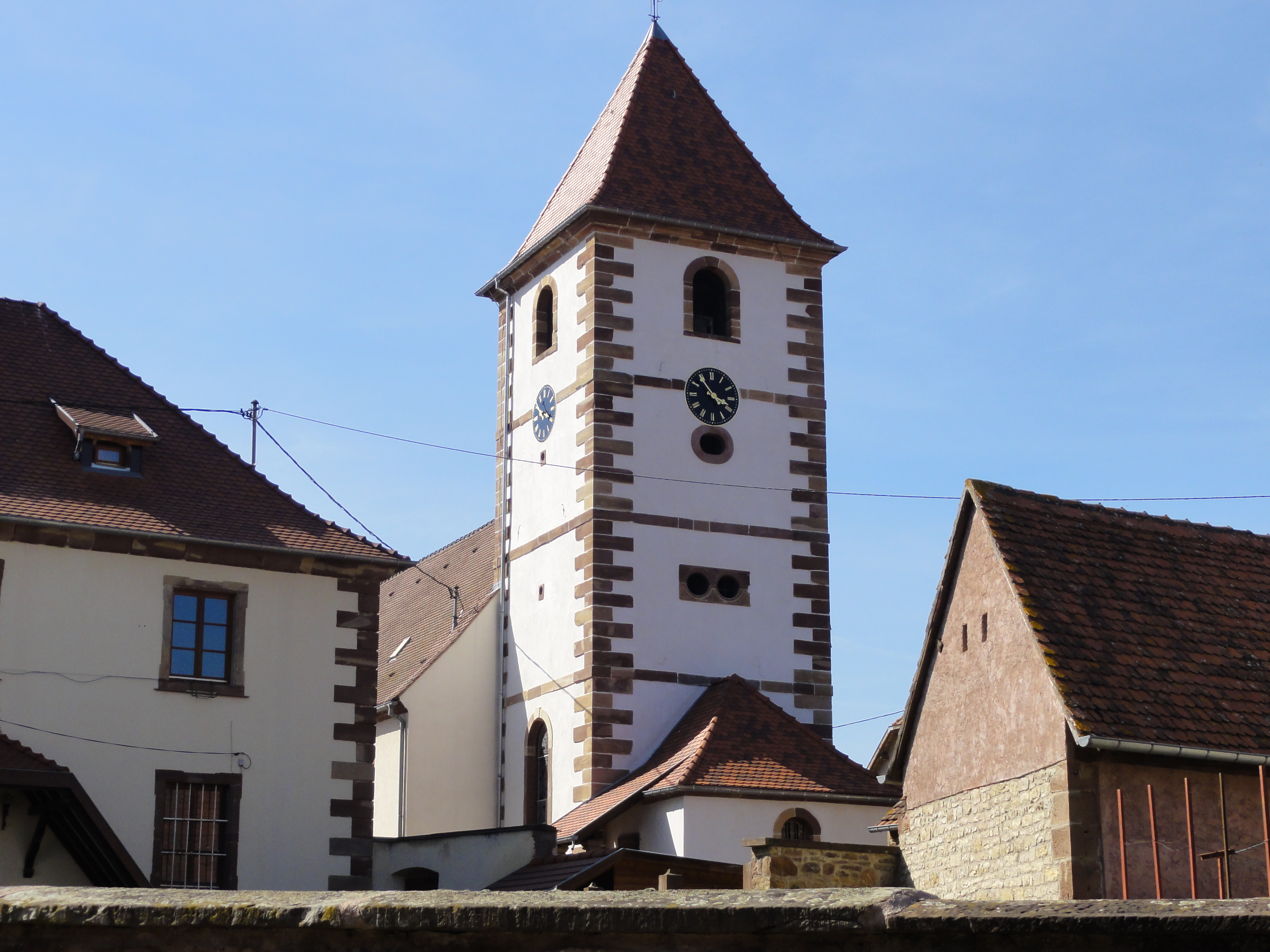 Alsace, Bas-Rhin, Jetterswiller, Église Saint-Pancrace (1750)